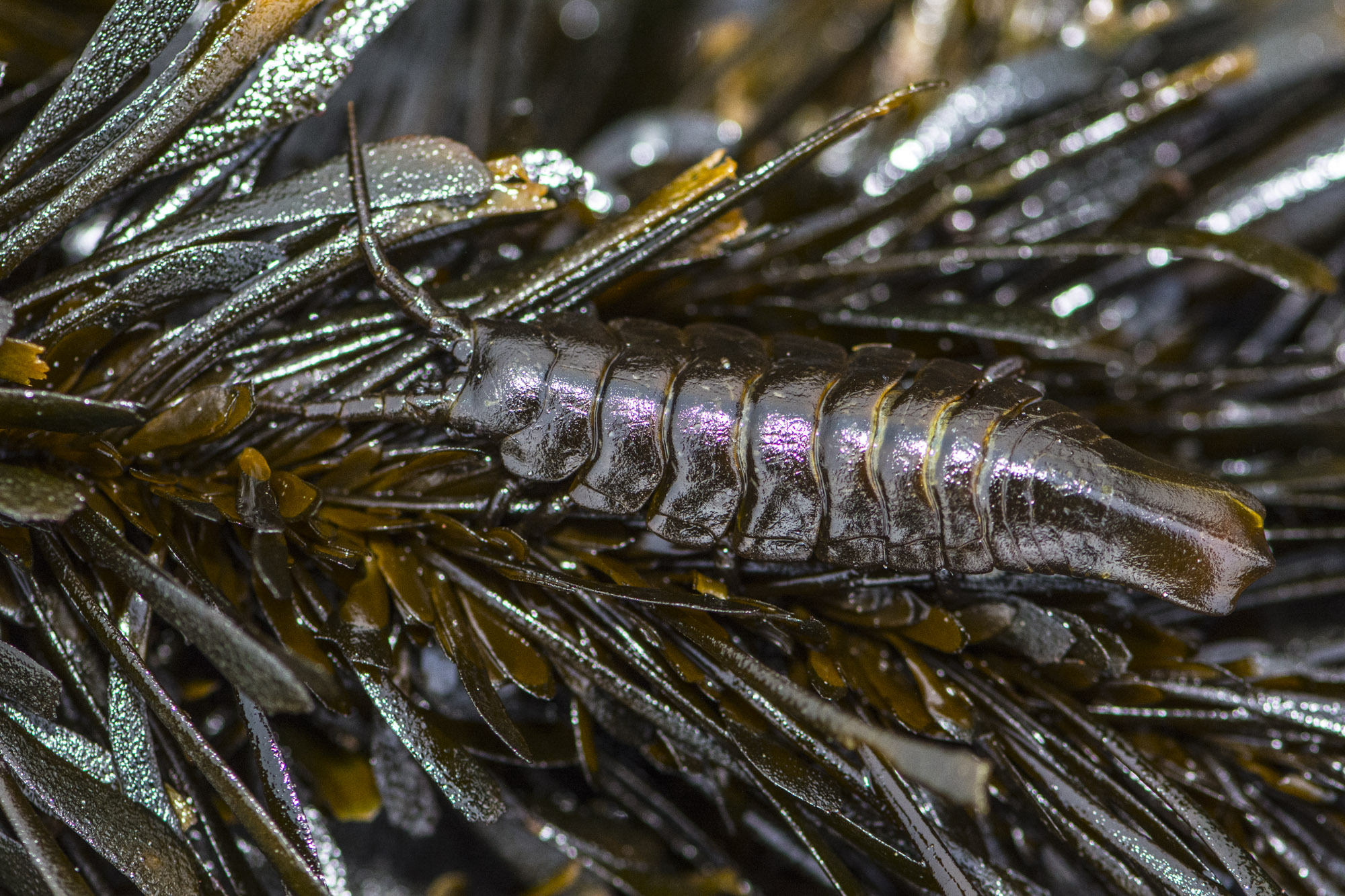 You could almost miss this isopod as it blended in so well.